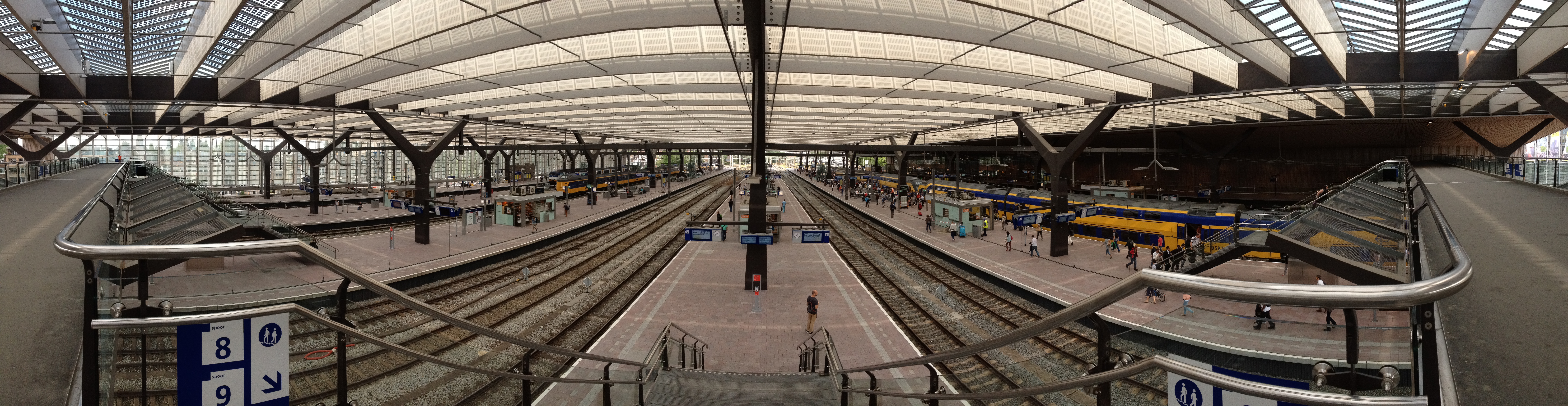 Panorama Station Rotterdam Centraal 2014: All the plaforms.